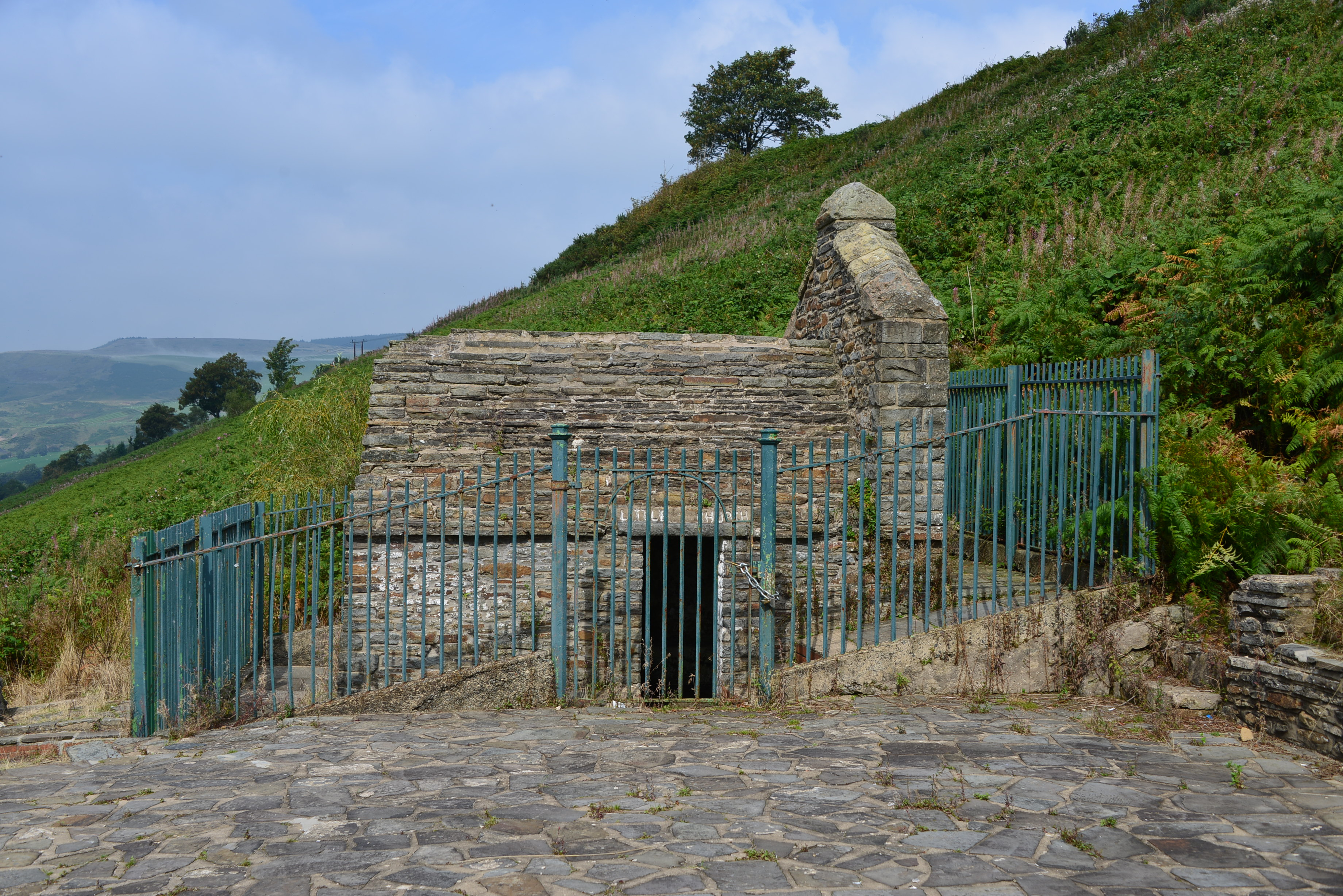 The "Little Church," built on the site of the holy well of Ffynnon Fair at Penrhys, Wales, a major pilgrimage site before the Protestant Reformation.